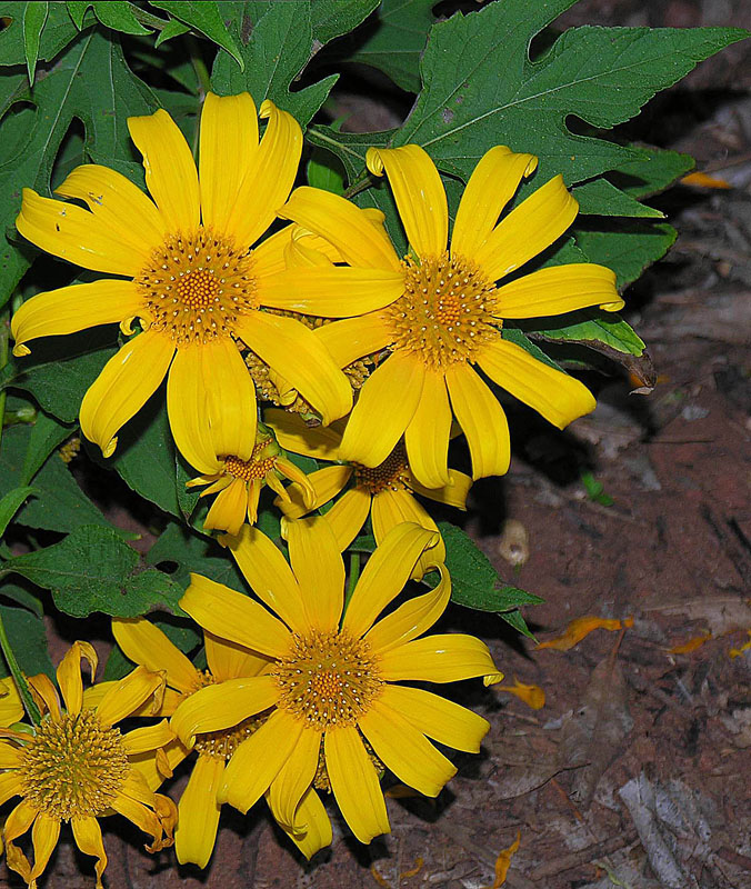 Spread around the tropics from a Mesoamerican origin and widely naturalized. Photo from near Songea, southern Tanzania. In context at